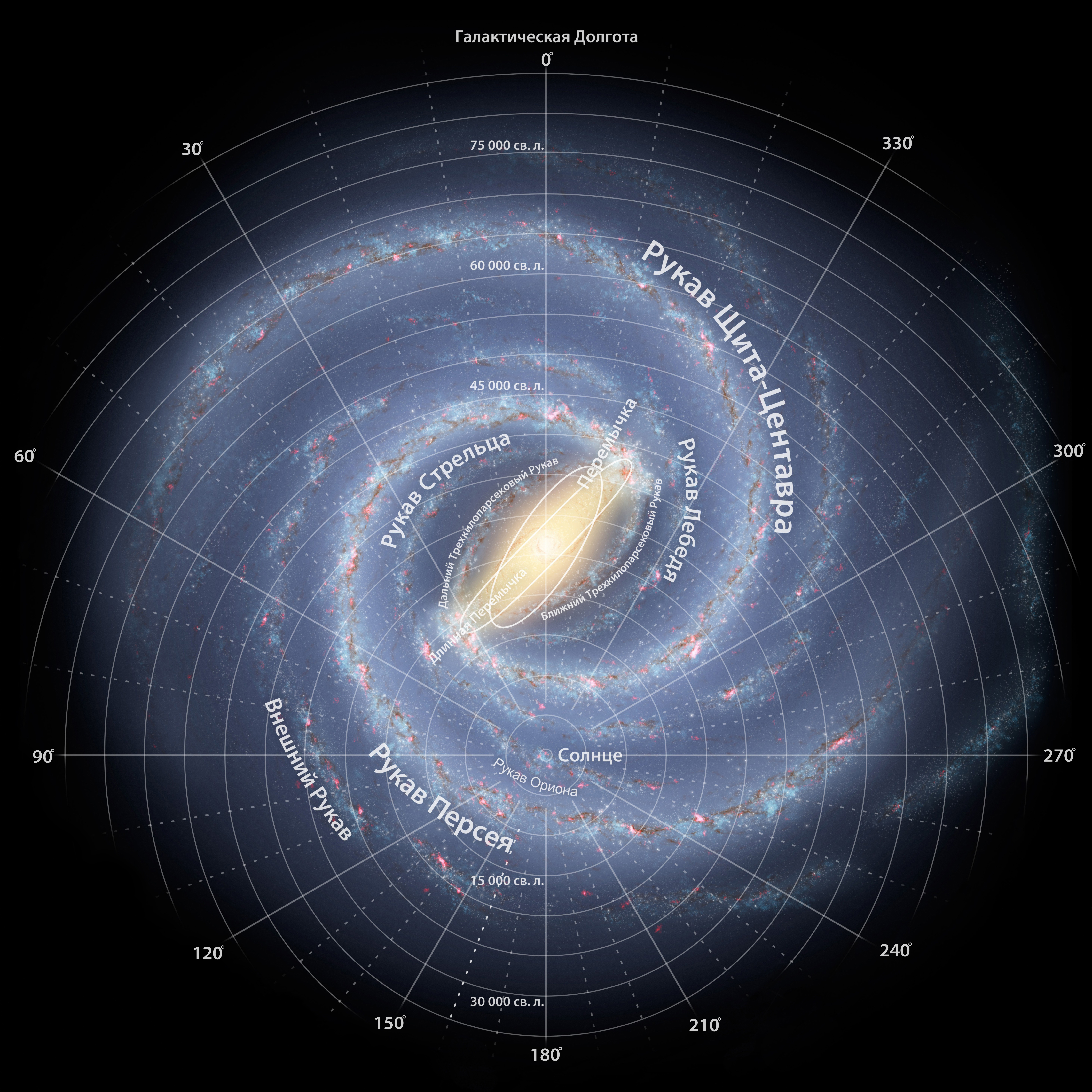 Схема галактики Млечный путь с комментариями на русском языке. Caption from NASA: Like early explorers mapping the continents of our globe, astronomers are busy charting the spiral structure of our galaxy, the Milky Way. Using infrared images from NASA's Spitzer Space Telescope, scientists have discovered that the Milky Way's elegant spiral structure is dominated by just two arms wrapping off the ends of a central bar of stars. Previously, our galaxy was thought to possess four major arms. This artist's concept illustrates the new view of the Milky Way, along with other findings presented at the 212th American Astronomical Society meeting in St. Louis, Mo. The galaxy's two major arms (Scutum-Centaurus and Perseus) can be seen attached to the ends of a thick central bar, while the two now-demoted minor arms (Norma and Sagittarius) are less distinct and located between the major arms. The major arms consist of the highest densities of both young and old stars; the minor arms are primarily filled with gas and pockets of star-forming activity. The artist's concept also includes a new spiral arm, called the "Far-3 kiloparsec arm," discovered via a radio-telescope survey of gas in the Milky Way. This arm is shorter than the two major arms and lies along the bar of the galaxy. Our sun lies near a small, partial arm called the Orion Arm, or Orion Spur, located between the Sagittarius and Perseus arms.